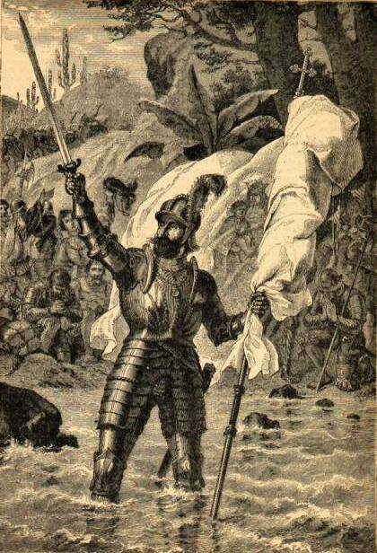 Vasco Núñez de Balboa claims the South Sea. XIXth century engraving by unknown artist.